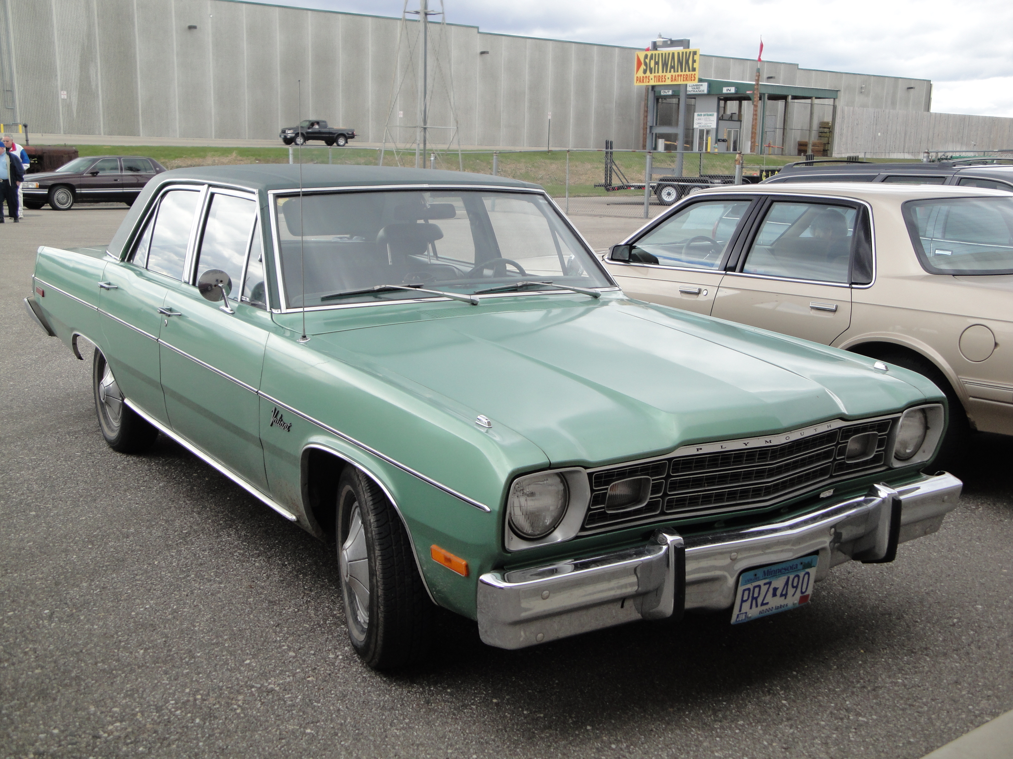 After a long, long Winter the cool cars are coming out in Minnesota. The weather was still dark, cold, wet and windy, but High School Proms and a couple of car club events brought out great cars despite the conditions. Thank you to The Minnesota Central Chapter of the AACA for bringing their Spring Fling Tour and the CCCA Spring Garage Tour to West Central Minnesota with all of your great cars. Willmar Car Club members Francis Kalvoda, Paul Aasen, Scott Jorgenson and the Schwanke Car, Truck and Tractor Museum displayed their collections to help lure so many fantastic cars and their drivers out on a rather nasty day.